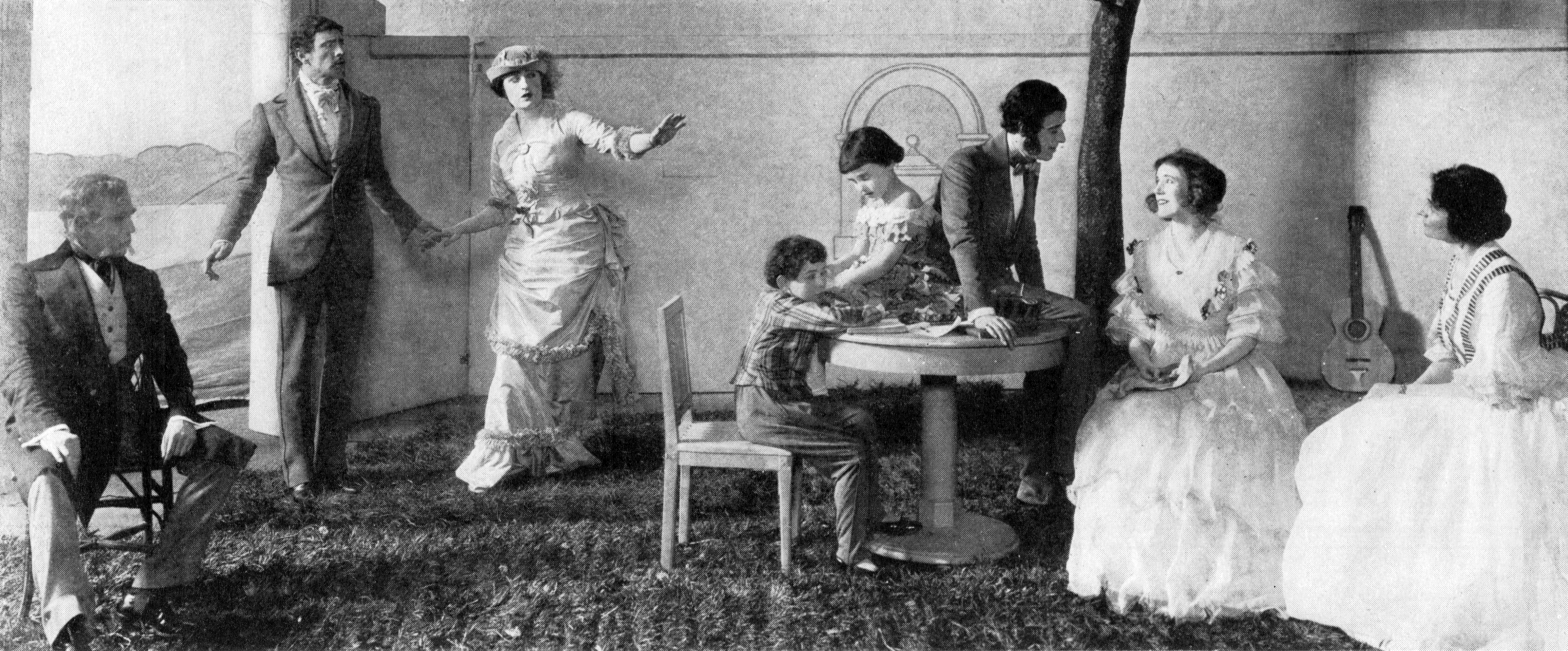 Photograph of a scene from the Broadway production of Peter Ibbetson Caption reads as follows: Peter Ibbetson (John Barrymore) is dreaming that he is revisiting the scenes of his childhood. Constance Collier leads him by the hand. Madge Evans is the little girl. Lionel Barrymore (Col. Ibbetson) is not in the party because he has been murdered by John.